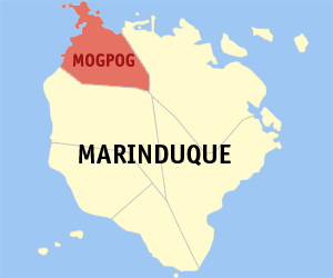 Map of Marinduque showing the location of Mogpog